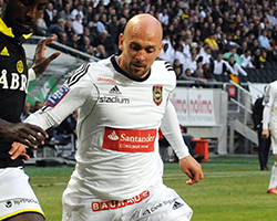 Kristinn Jónsson, Brommapojkarna defender.